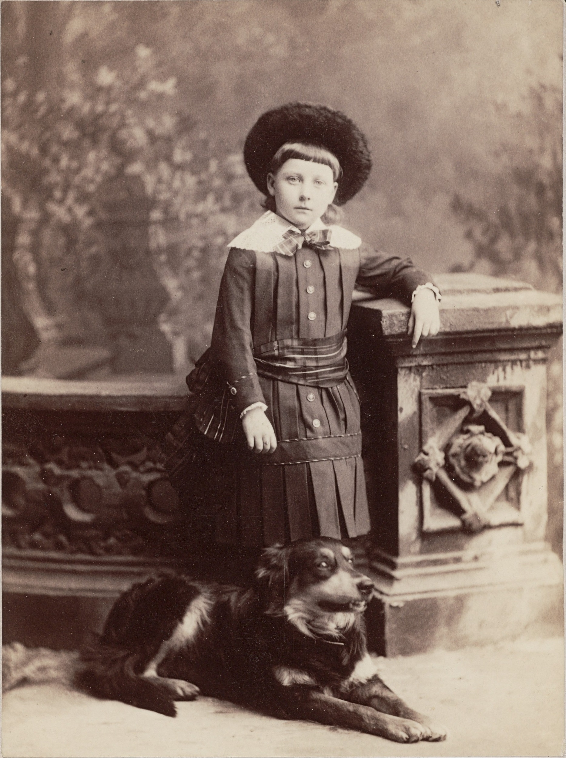 Photograph of Amy Lowell (1874-1925) as a child, with dog, photographed by James Notman. MS Lowell 62 (1), Houghton Library, Harvard University